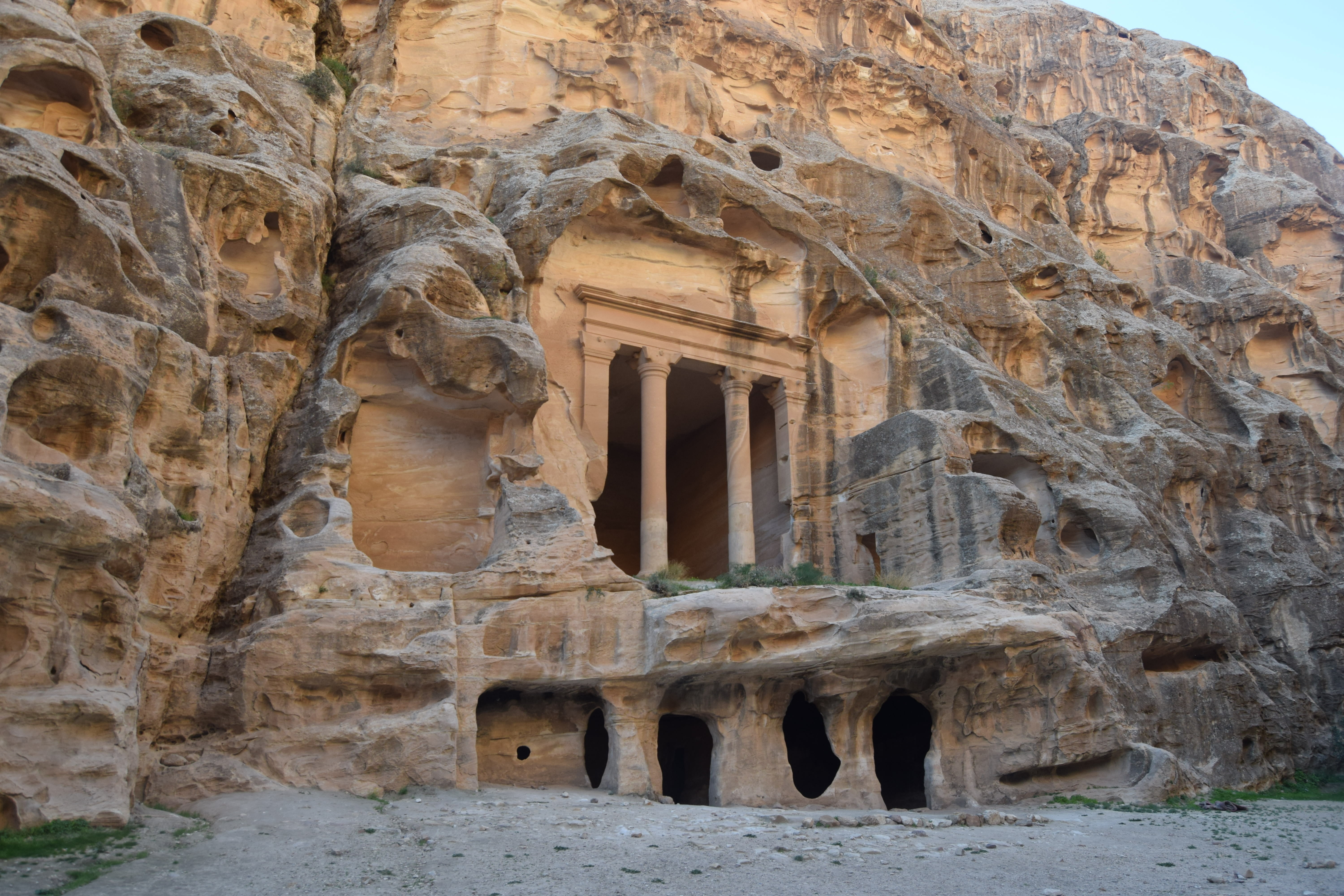 Little Petra